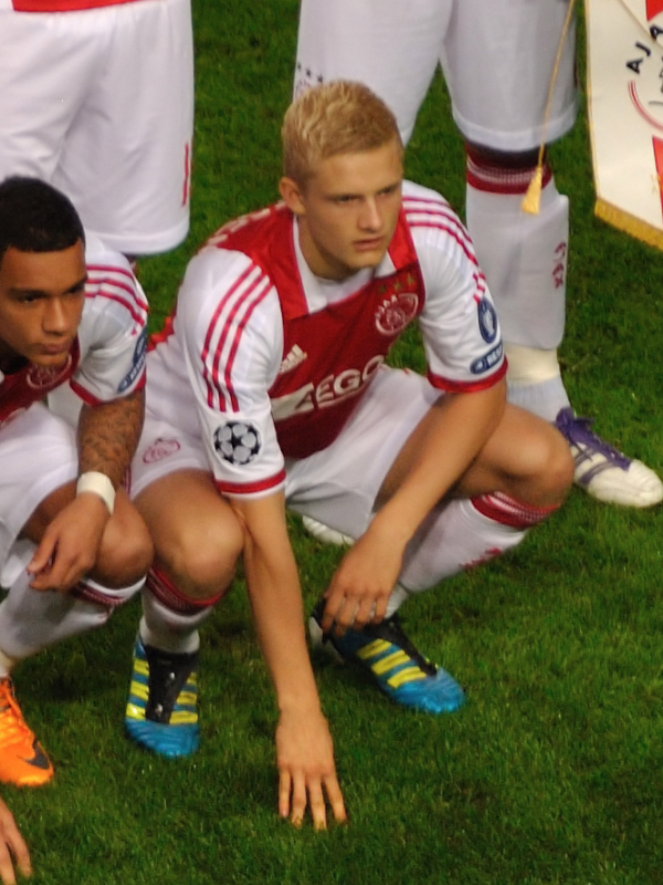 Cutout piece of: File:Basis Elftal Ajax 14Sep2011.jpg